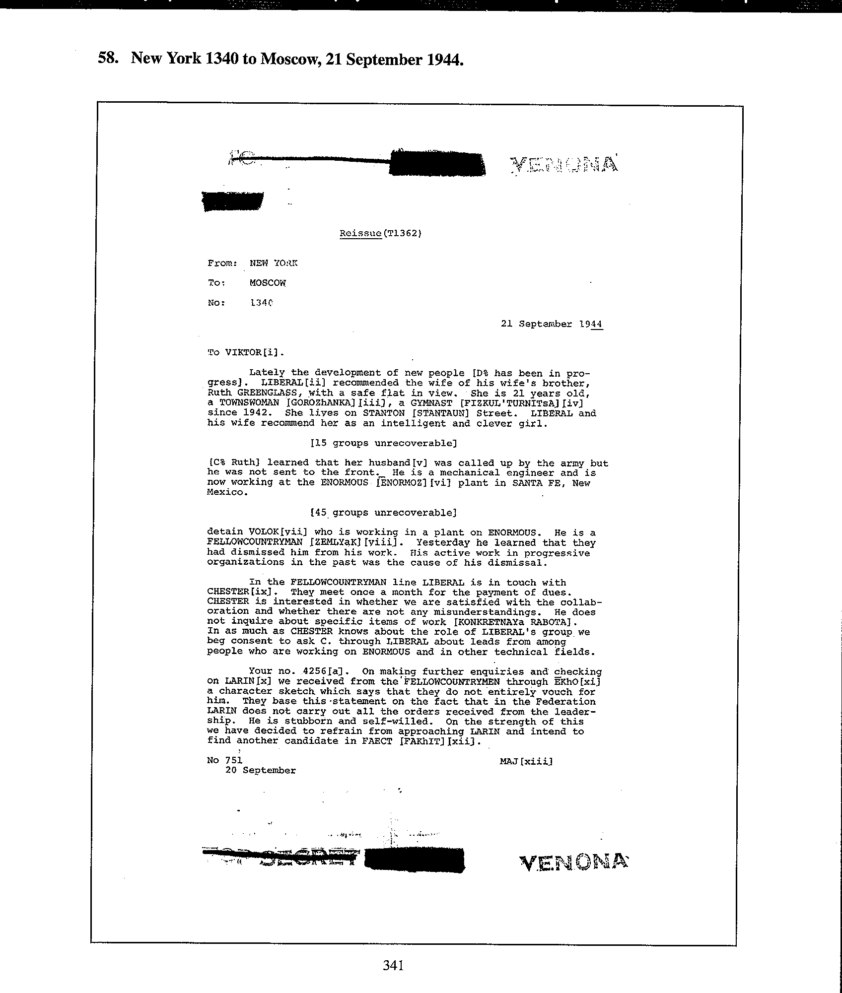 One of the Venona documents, showing participation of Greenglasses and Rosenbergs